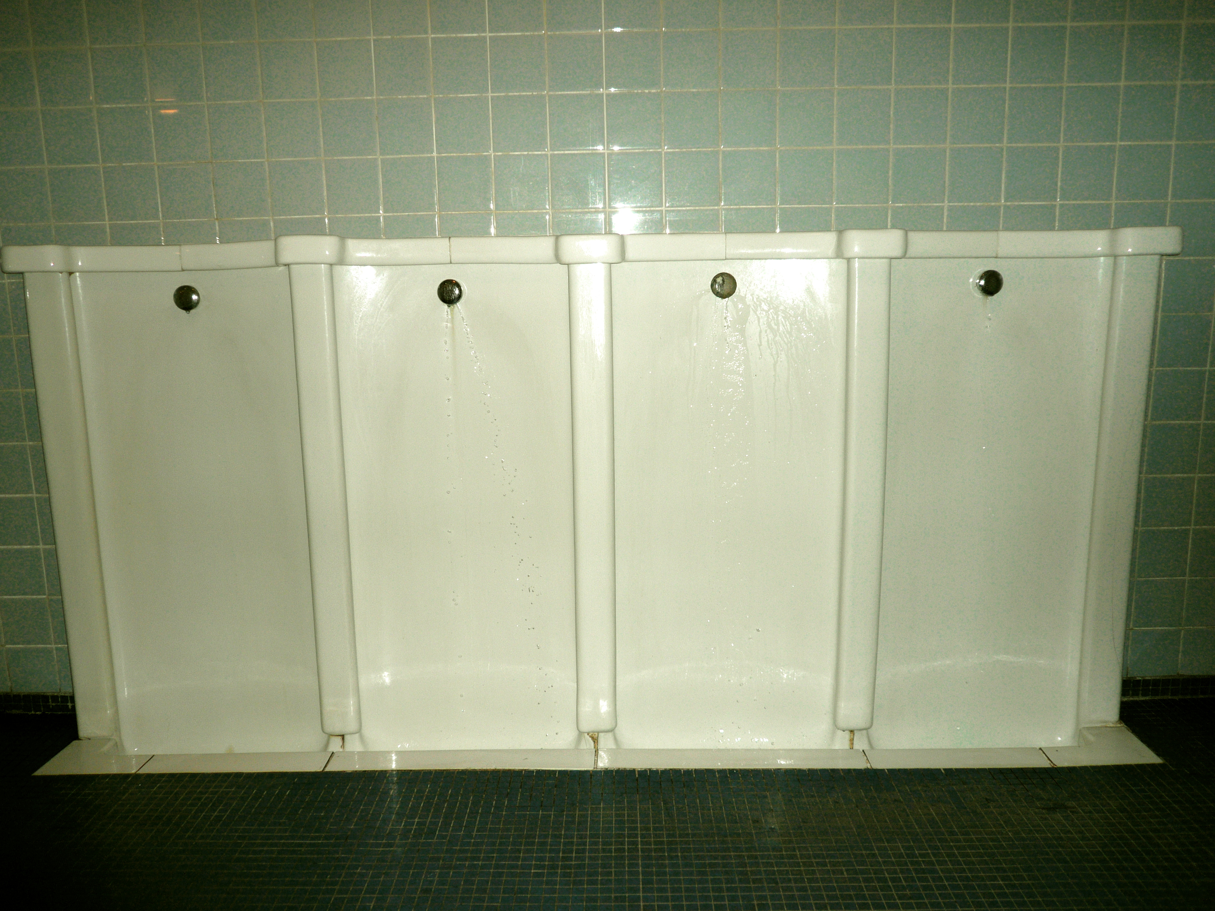 Public pissoir in a museum